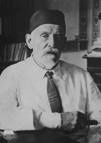 Sergey Gavrilovich Navashin, Russian biologist